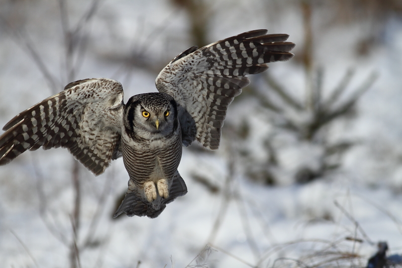 Surnia ulula (Strigidae) (Northern Hawk-Owl) - (adult), Klippan, Sweden